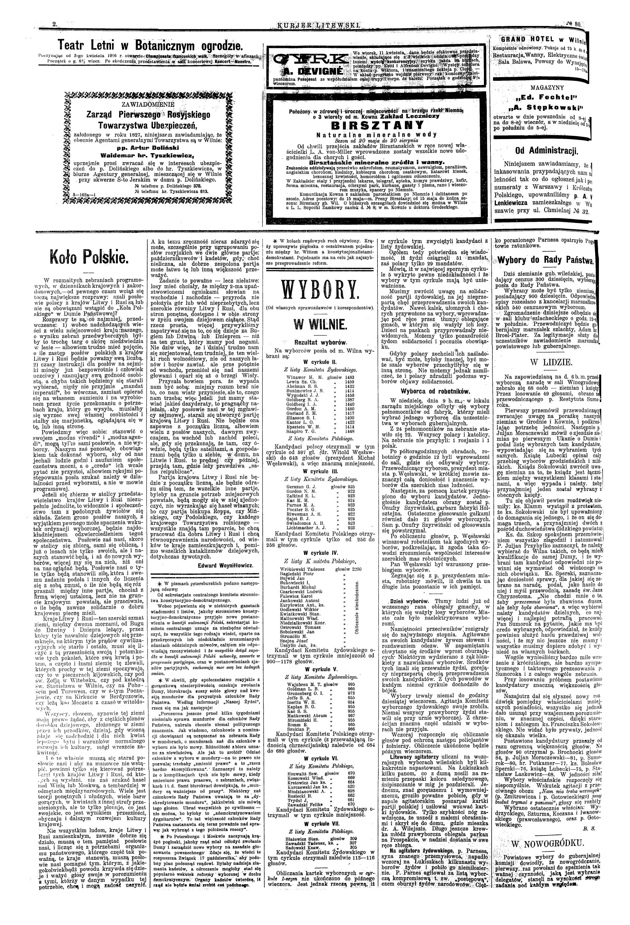 second page of newspaper "Kuryer Litewski" (#80, 1906 AD), Russian empire. Edward Woynillowicz (1847-1928)'s article